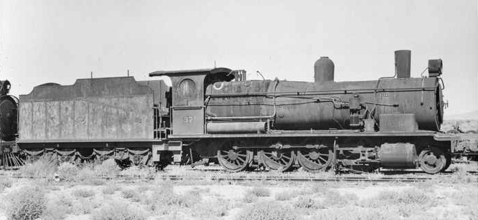 Portrait of a Commonwealth Railways KA class tender locomotive, probably at Port Augusta, South Australia. The fleet number of this locomotive is not clear; the KA class locomotives were numbered KA35–KA54 and KA56–KA61.This is one of a number of images in the collection of the State Library of South Australia depicting Commonwealth Railways locomotives said to have been taken in around 1951, the year the new Commonwealth Railways GM class diesel-electric locomotives began to replace the CR's remaining steam locomotive fleet on the Trans-Australia Railway.